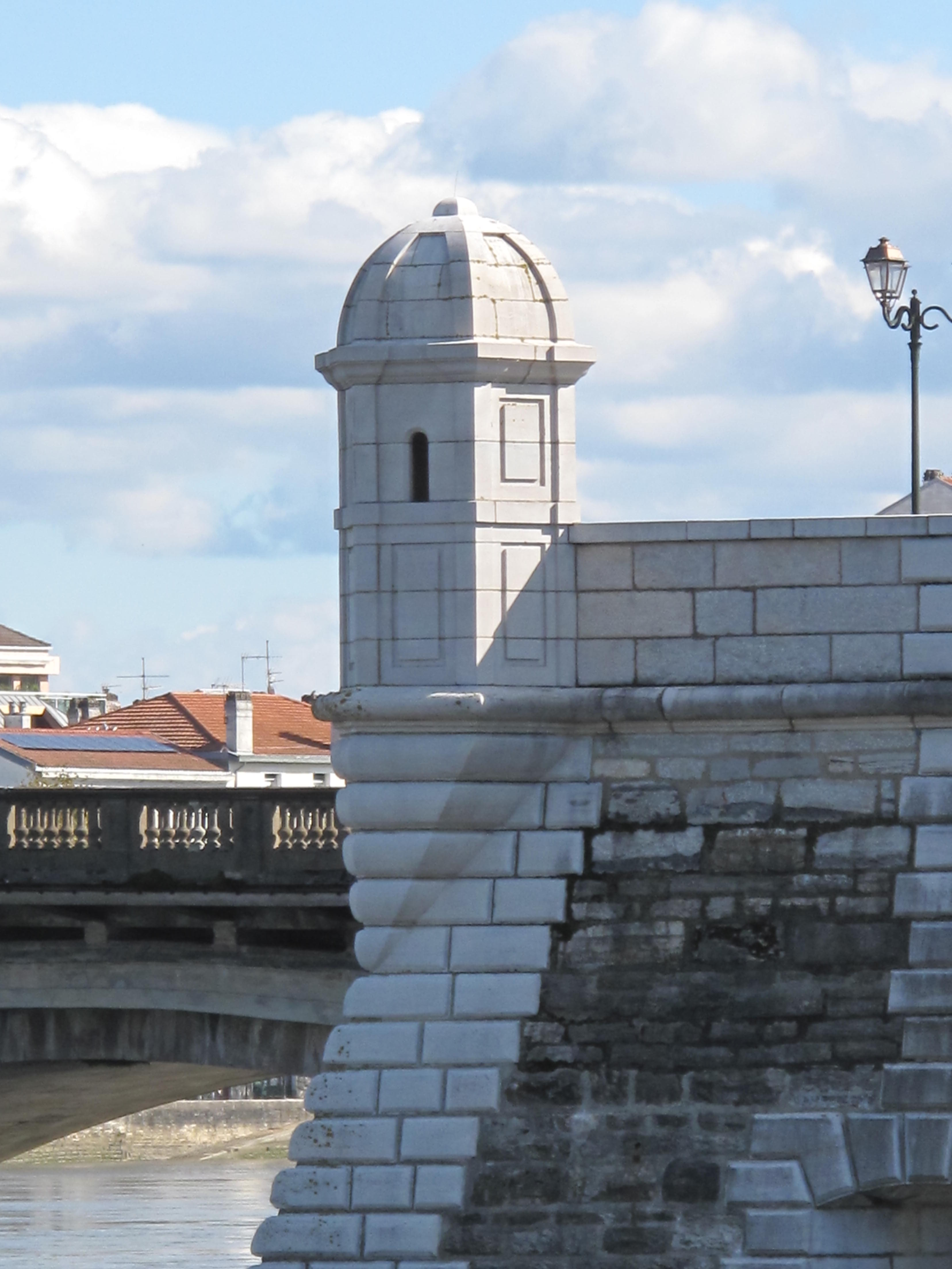 Close look to the bartizan (in French échauguette) of le Réduit (in French, a réduit is a small fortress or bastion) in Bayonne (Pyrénéees-Atlantiques, France). It was restaured in 2005